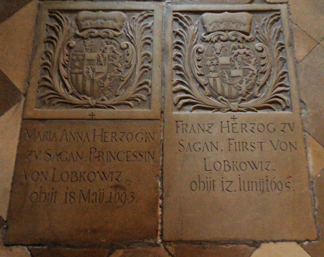 St. Emmeram's Basilica (Regensburg) - St Wolfgang Crypt: Graves of Franz Lobkowicz, Duke of Sagan (died 1695) and Maria Anna Lobkowicz, Duchess of Sagan (died 1693).